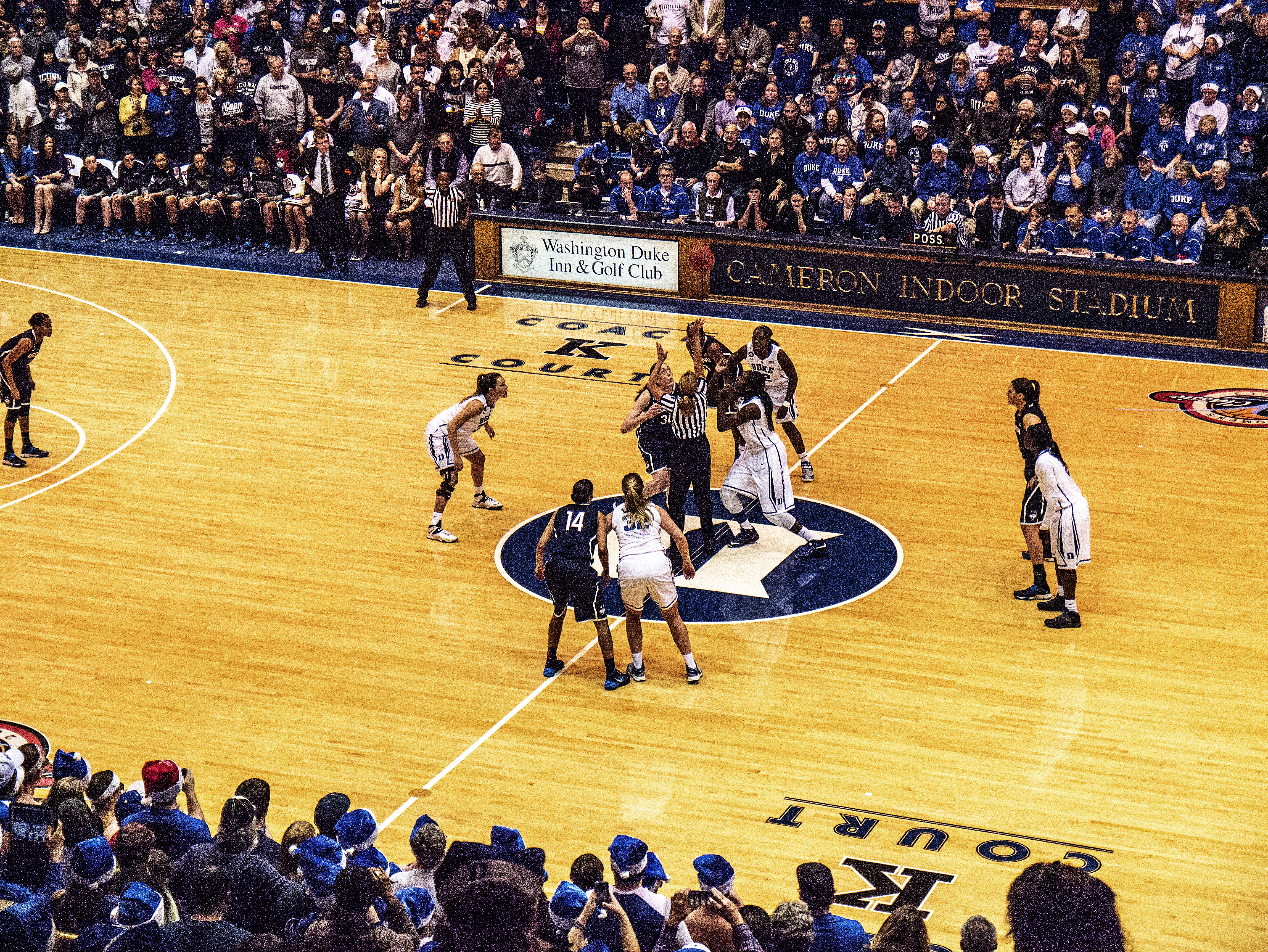 Tip off of a Duke women's basketball game at Cameron Indoor Stadium vs. UConn on December 17, 2013